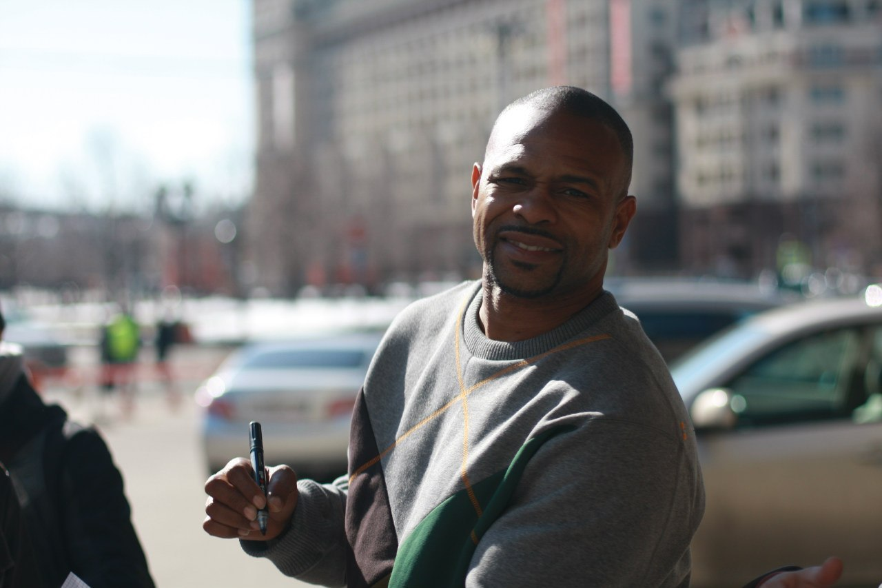 Jones gives an autograph (Moskow, Russia)